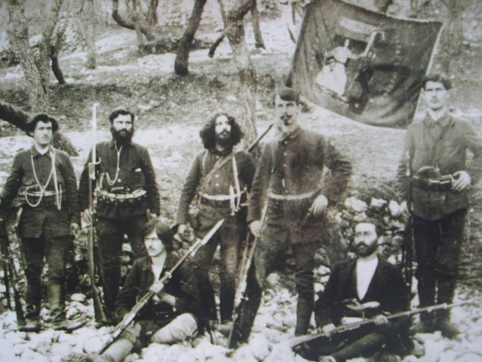 IMARO band of Petar Chaulev in the region of Ohrid, 1903.